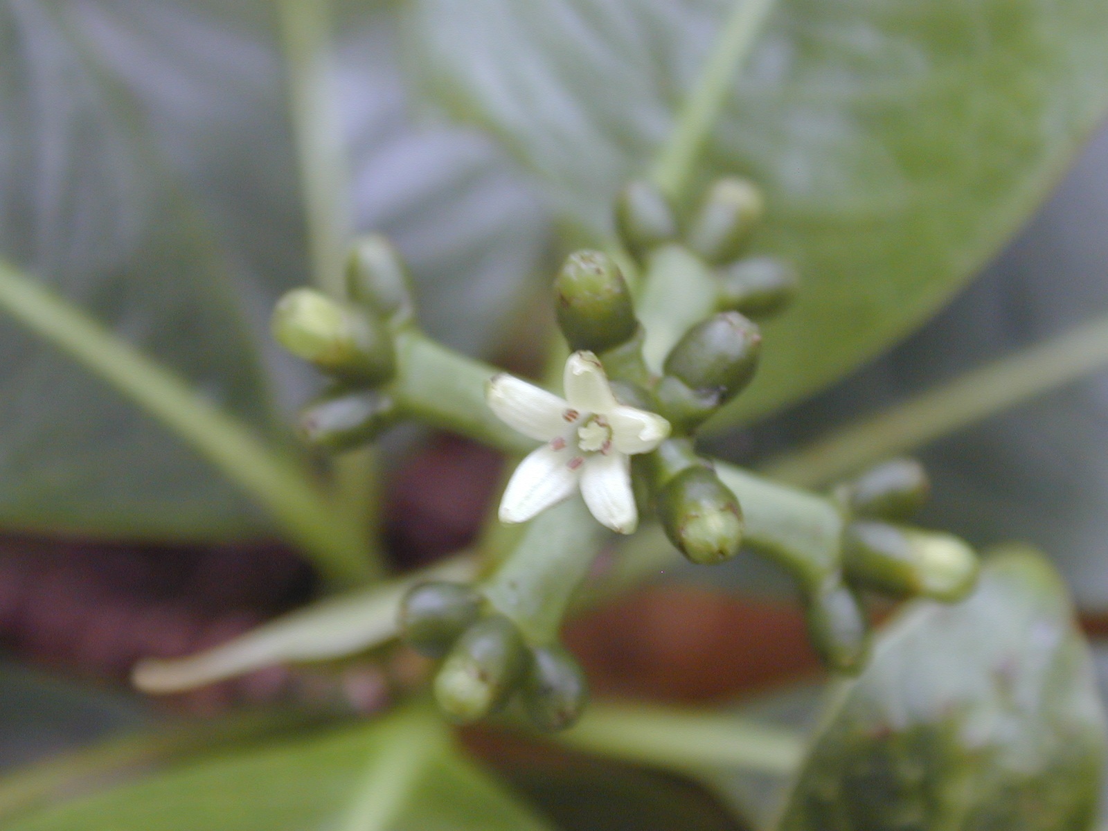 Psychotria mariniana (flower). Location: Maui, Makawao Forest Reserve